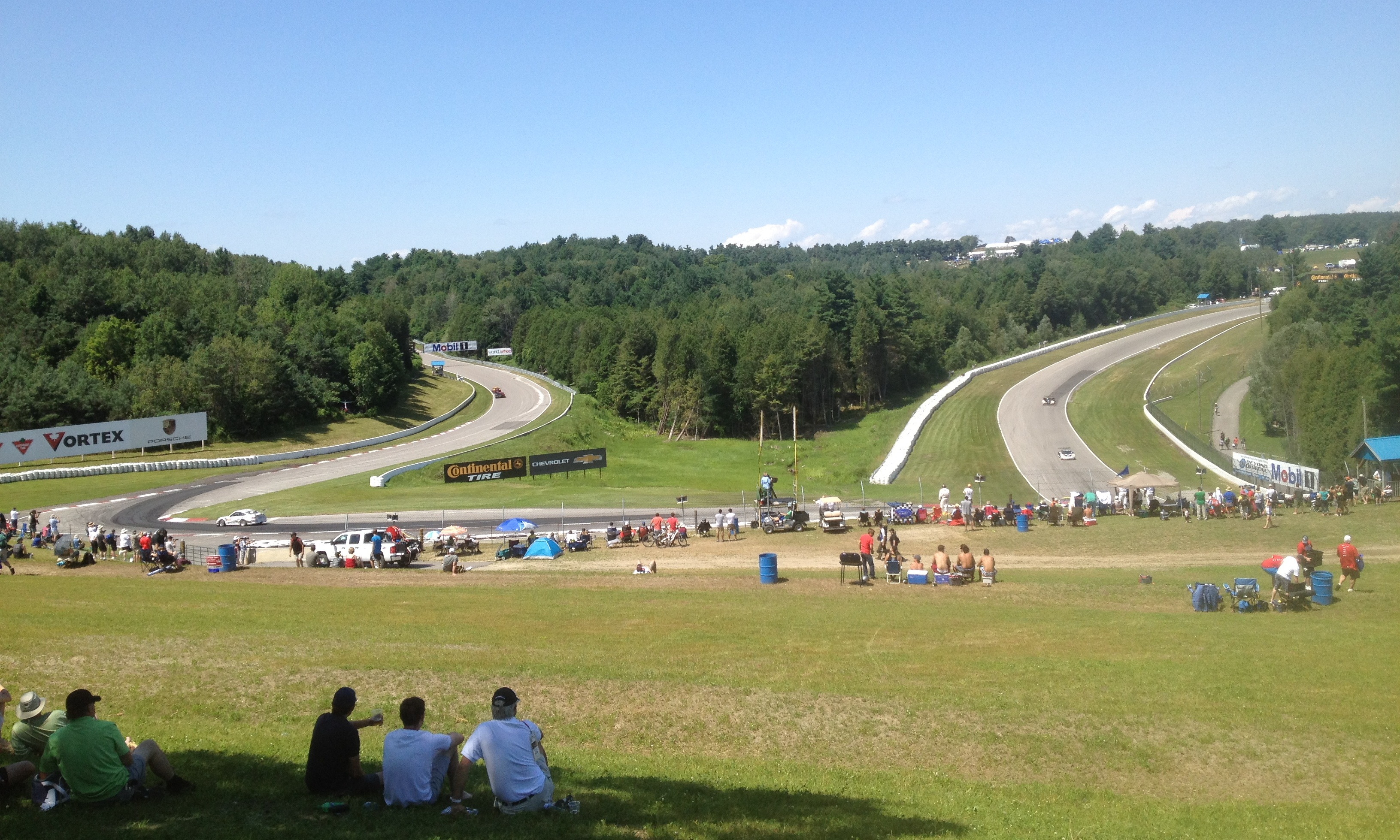 Moss Corner Turn 5a and 5b at Canadian Tire Motorsport Park. Taken at the 2013 SportsCar Grand Prix at Canadian Tire Motorsport Park